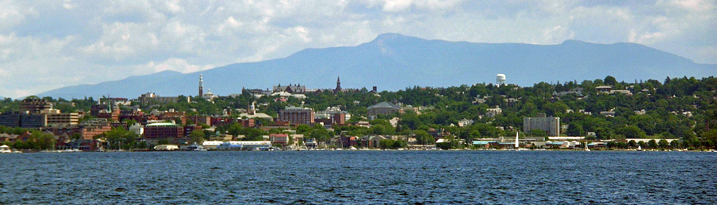 The skyline of Burlington, Vermont with Mount Mansfield in the background and Lake Champlain in the foreground.